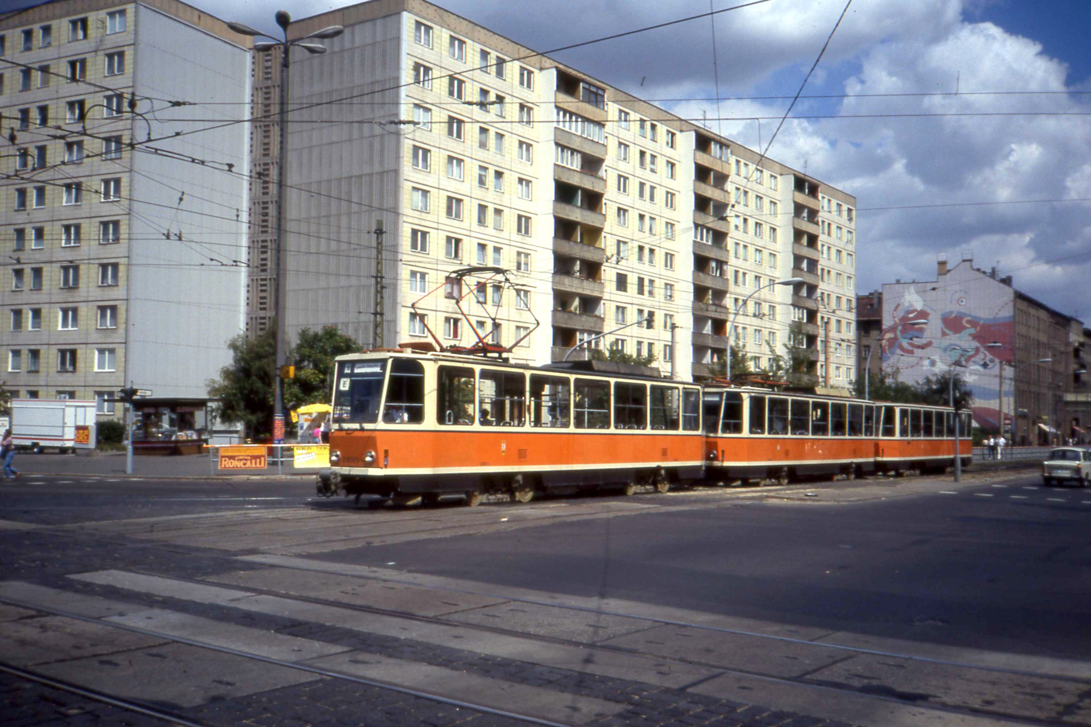 Two Tatra T6A2D trams with one Tatra B6A2D trailer in Berlin. former East Germany